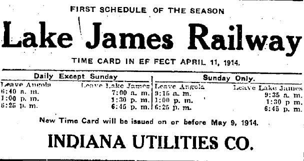 Train schedule advertised in Fort Wayne Journal Gazette in 1914.